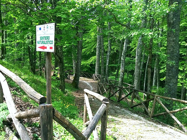 Forest in Faeto, Apulia